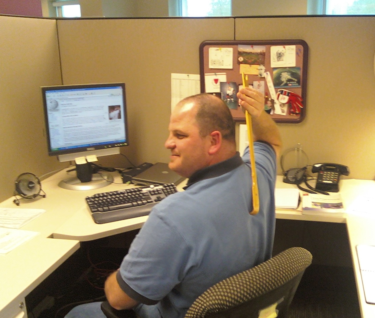 Man using a back scratcher.